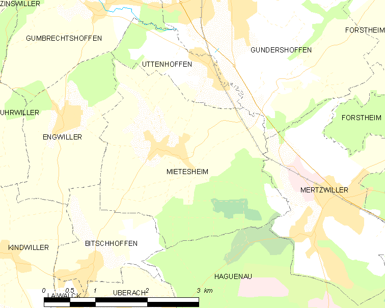 Map of French municipality